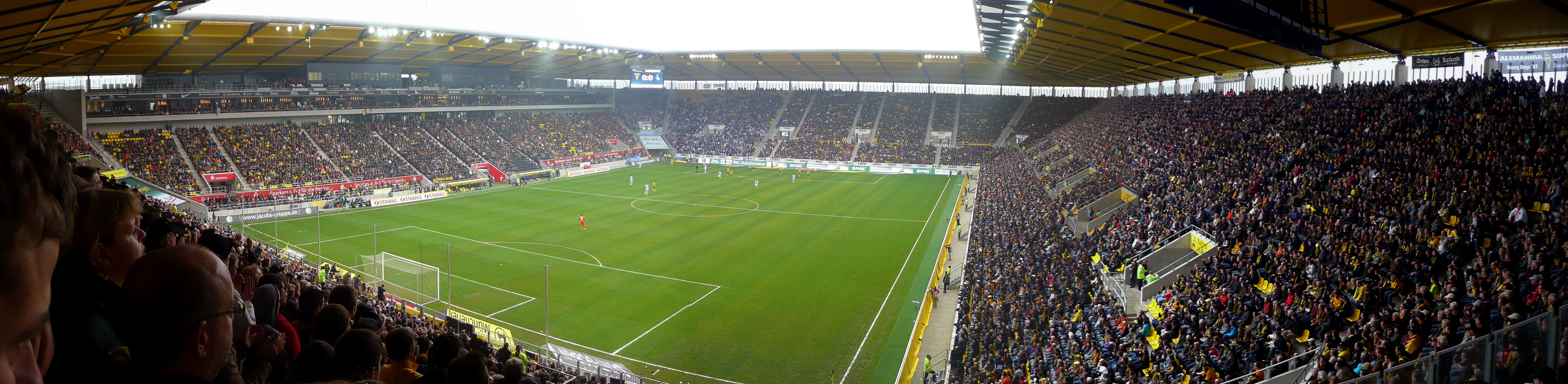 Aachen Tivoli football stadium